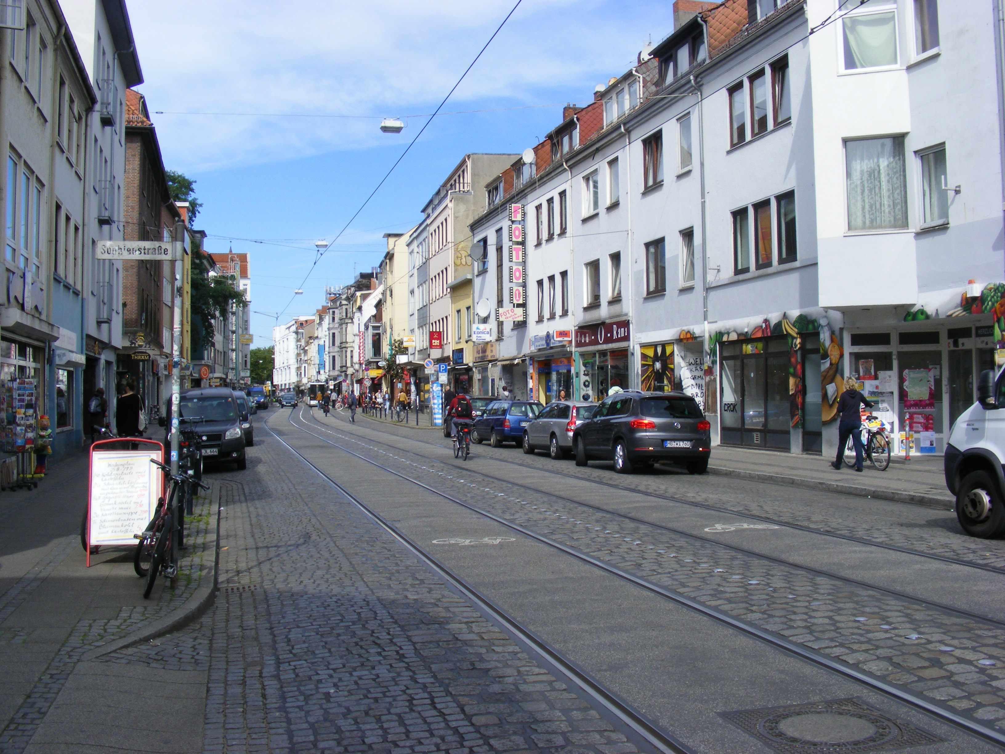 Bremen (Germany), Vor dem Steintor: Integrative cycling anhancement fitting the principles of US and Canadian shared lanes